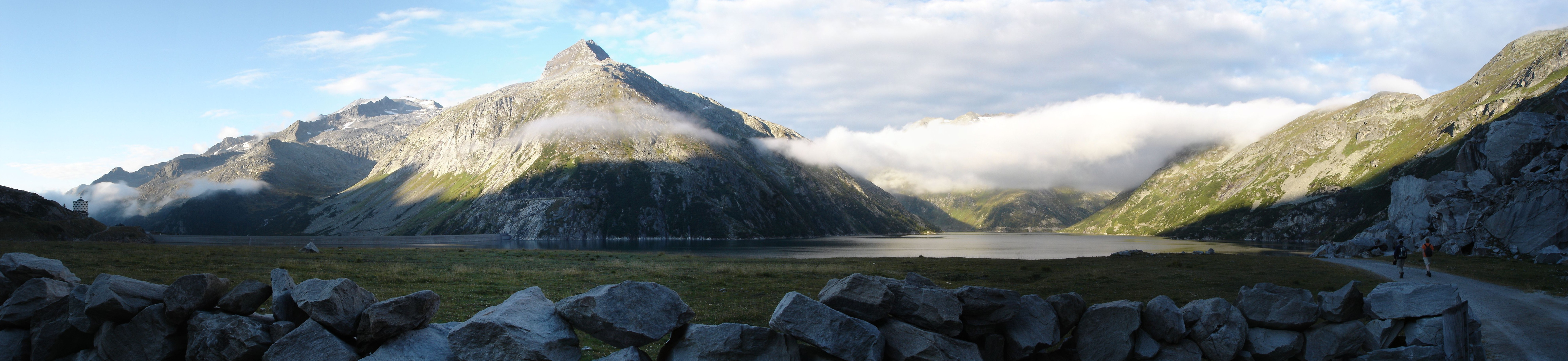 Kölnbreinsperre, Austria's largest dam at morning. In the background is Hochalmspitze mountain.